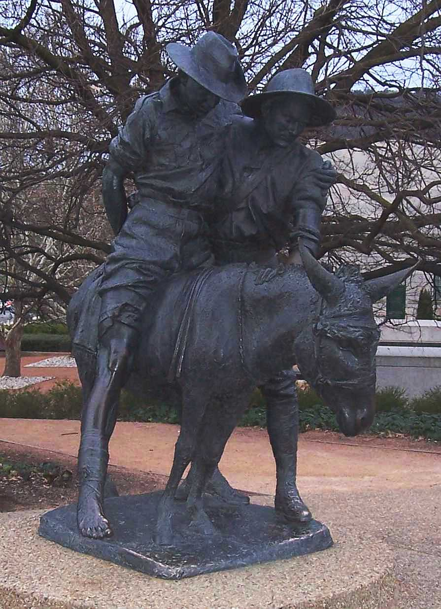 Simpson and his donkey supporting a wounded man. This statue (1987-1988) by Peter Corlett, is located outside the Australian War Memorial in Canberra. I took the photo myself, with a Kodak digital camera, on 19/08/05.